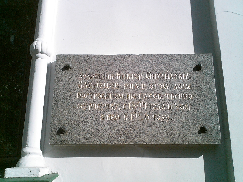 Russian painter Vasnetsov House wall-sign. Here he lived en 1894-1926